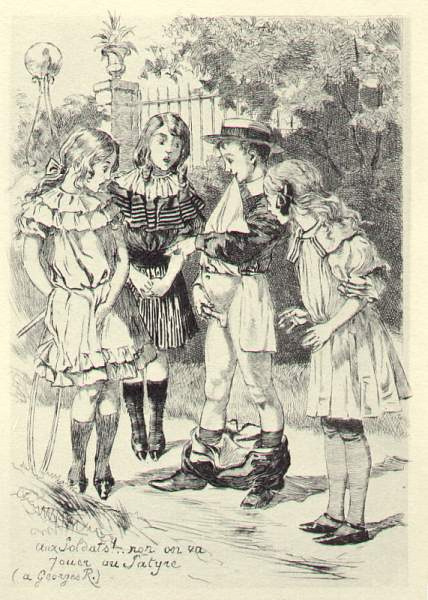 Soldiers! .. No, we're playing Satyr.